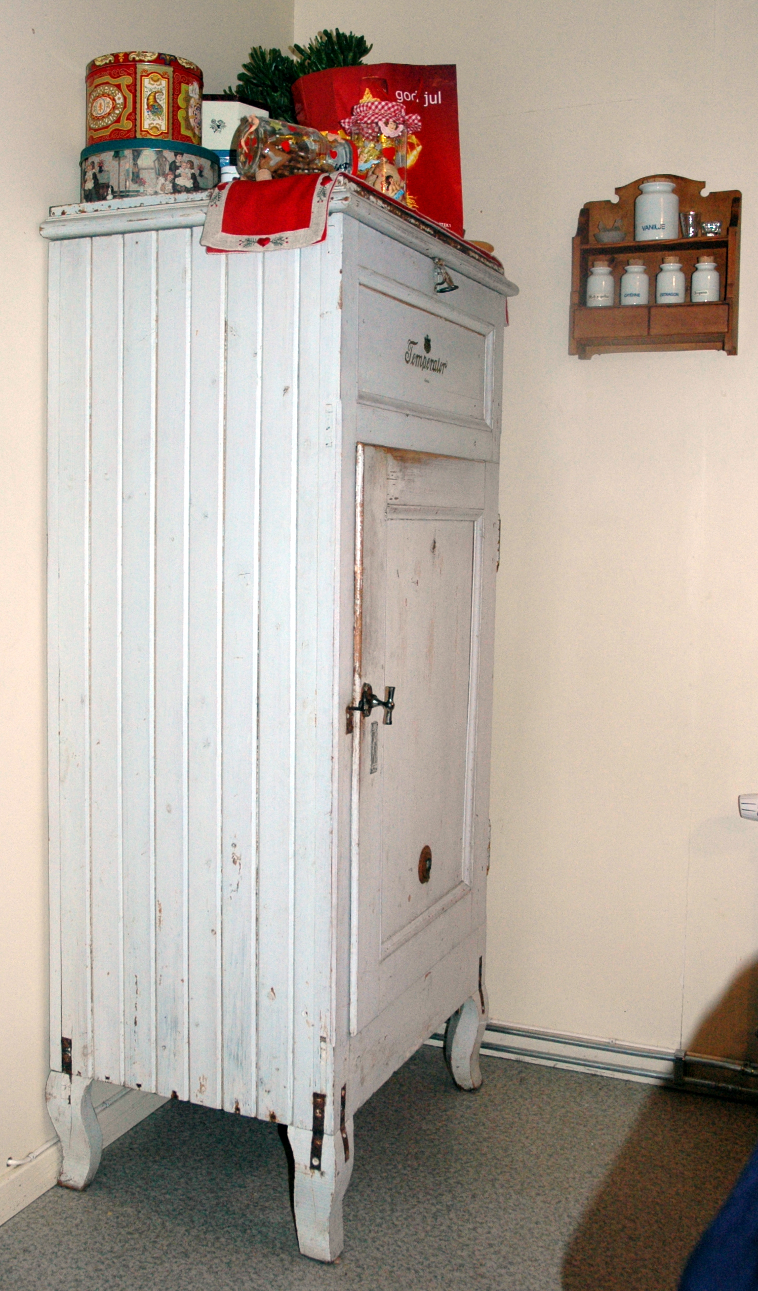 An ice box, no longer in use. About 160 cm high, standing in a kitchen of a norwegian farm. Photograph taken by myself, Kjetil Lenes.